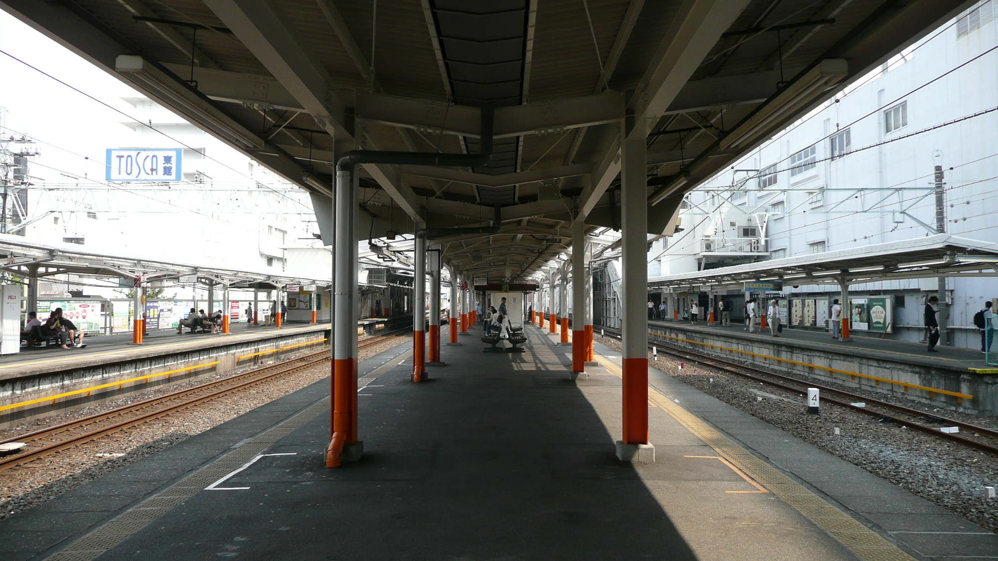 Nishiarai Station platform,Tobu Railway.